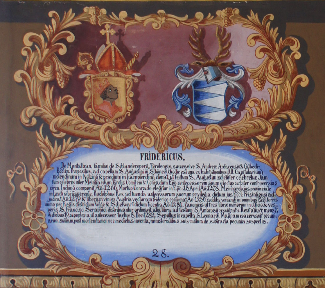 Wappentafel von Friedrich von Montalban, Bischof von Freising, im Fürstengang zwischen Fürstbischöflicher Residenz und Freisinger Dom. Links das geistliche, rechts das persönliche Wappen, darunter ein lateinischer Text mit kurzer Biographie.